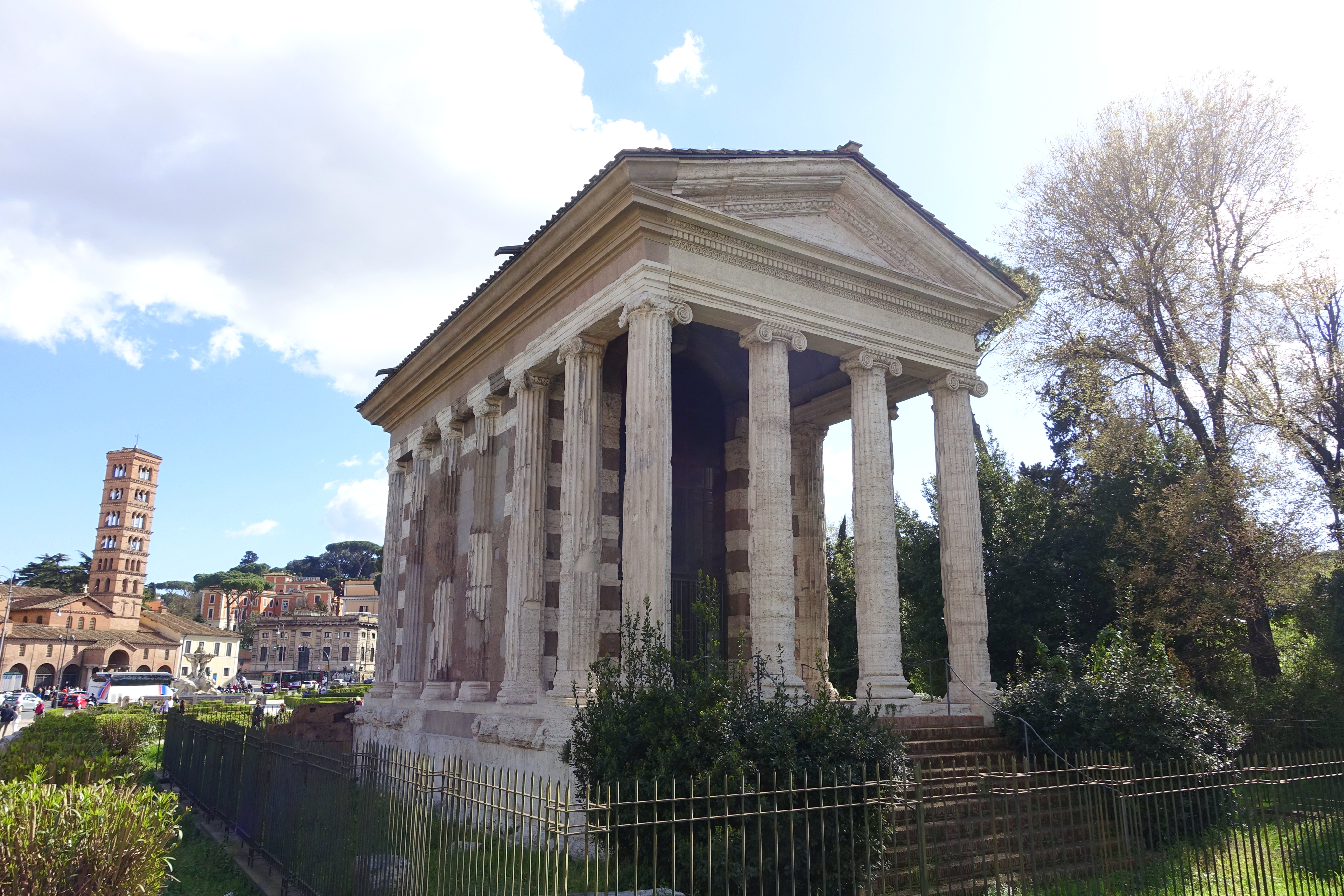 Temple of Portunus - Rome Italy.